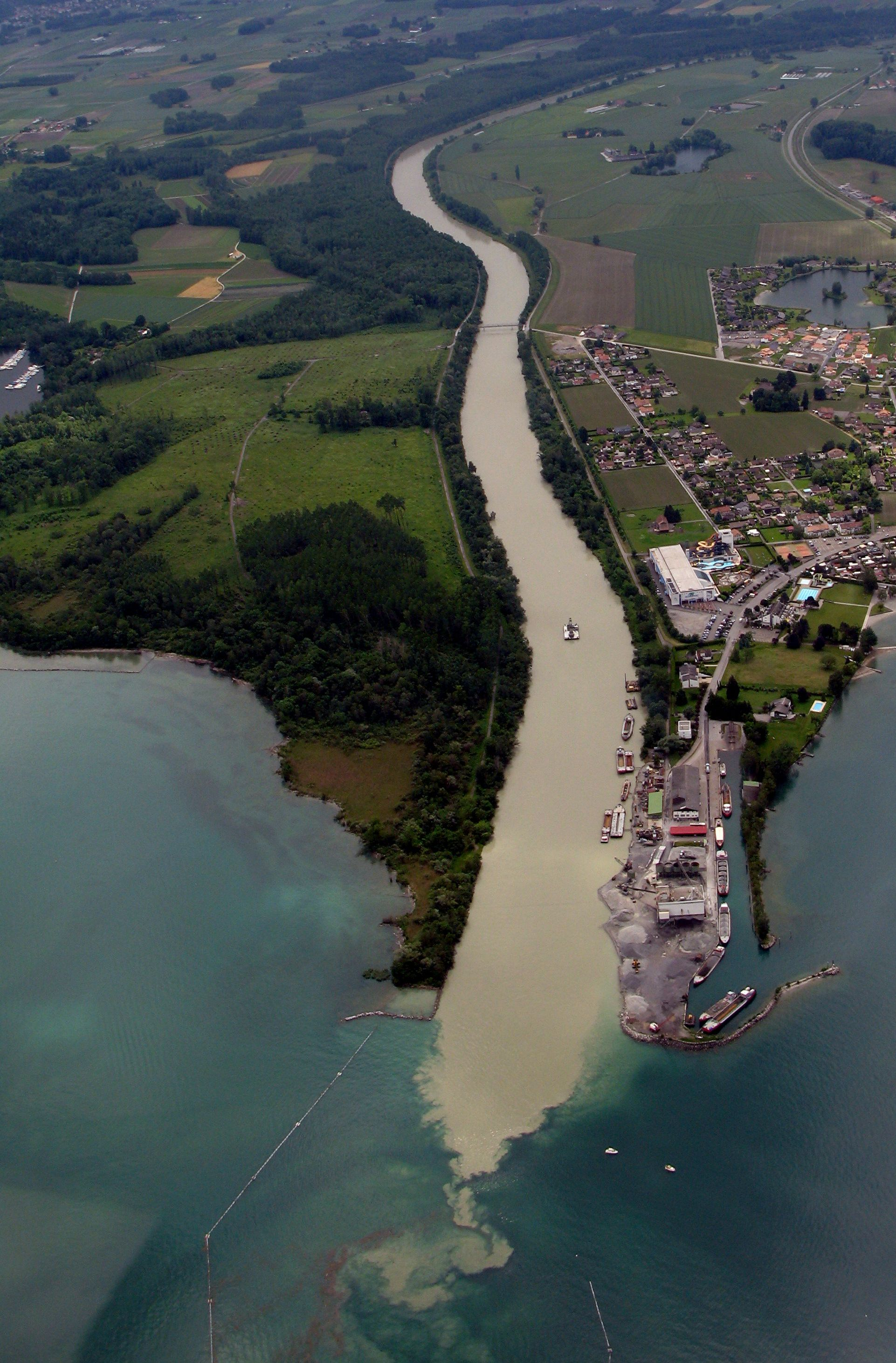 River Rhône, Lake Geneva, cantons of Vaud and Valais